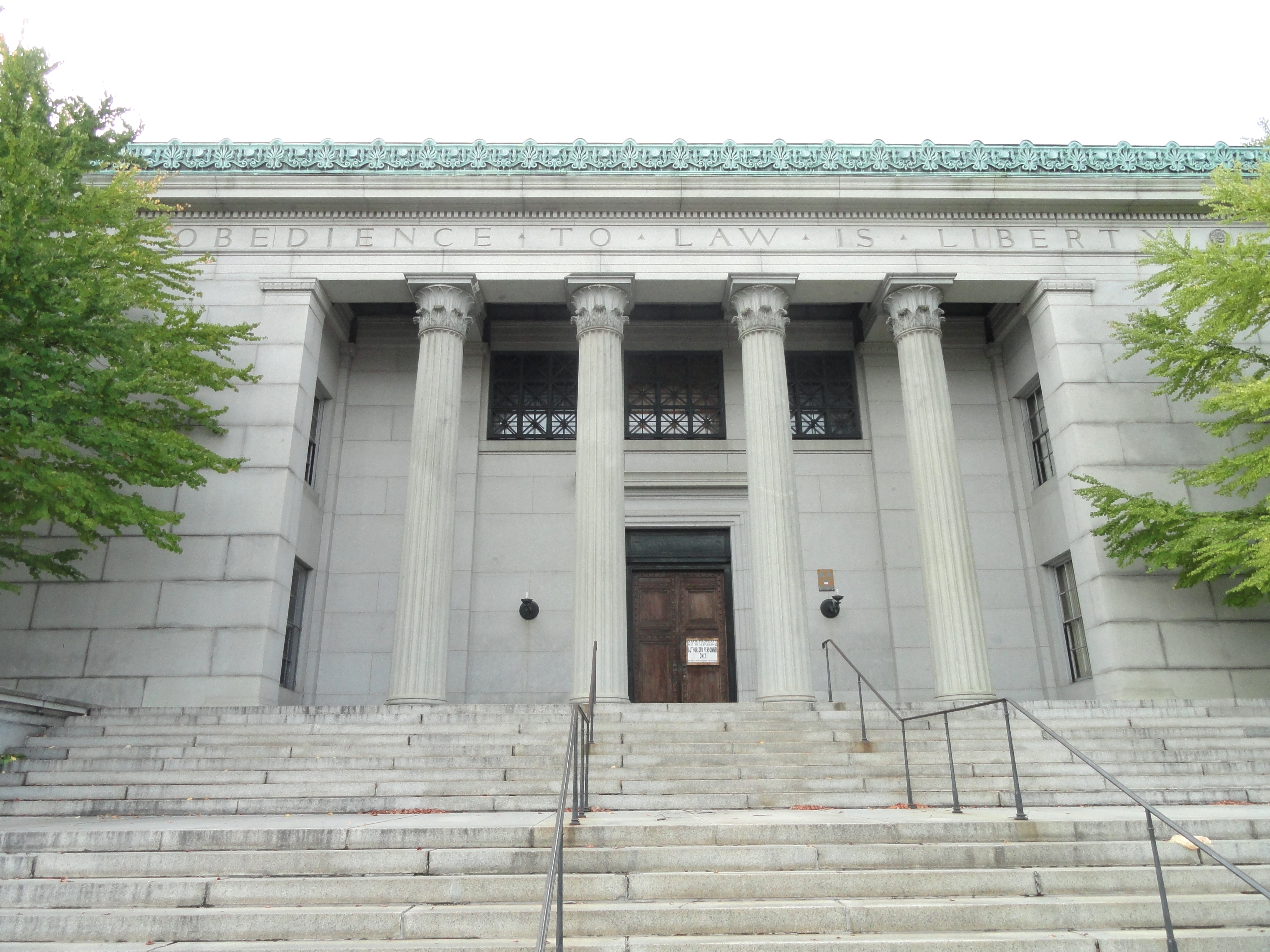 The former Worcester County Courthouse, Worcester, Massachusetts, USA. It has the interesting motto: Obedience to Law is Liberty. According to Preservation Worcester, the building was built in stages "(1843, 1878, 1898 and 1954). The south wing is its oldest section, dating from 1843. A Greek revival section was added in 1878. The present Classical Revival structure was built in 1898 and designed by Andrews, Jacques, and Rantoul to incorporate the earlier structures."